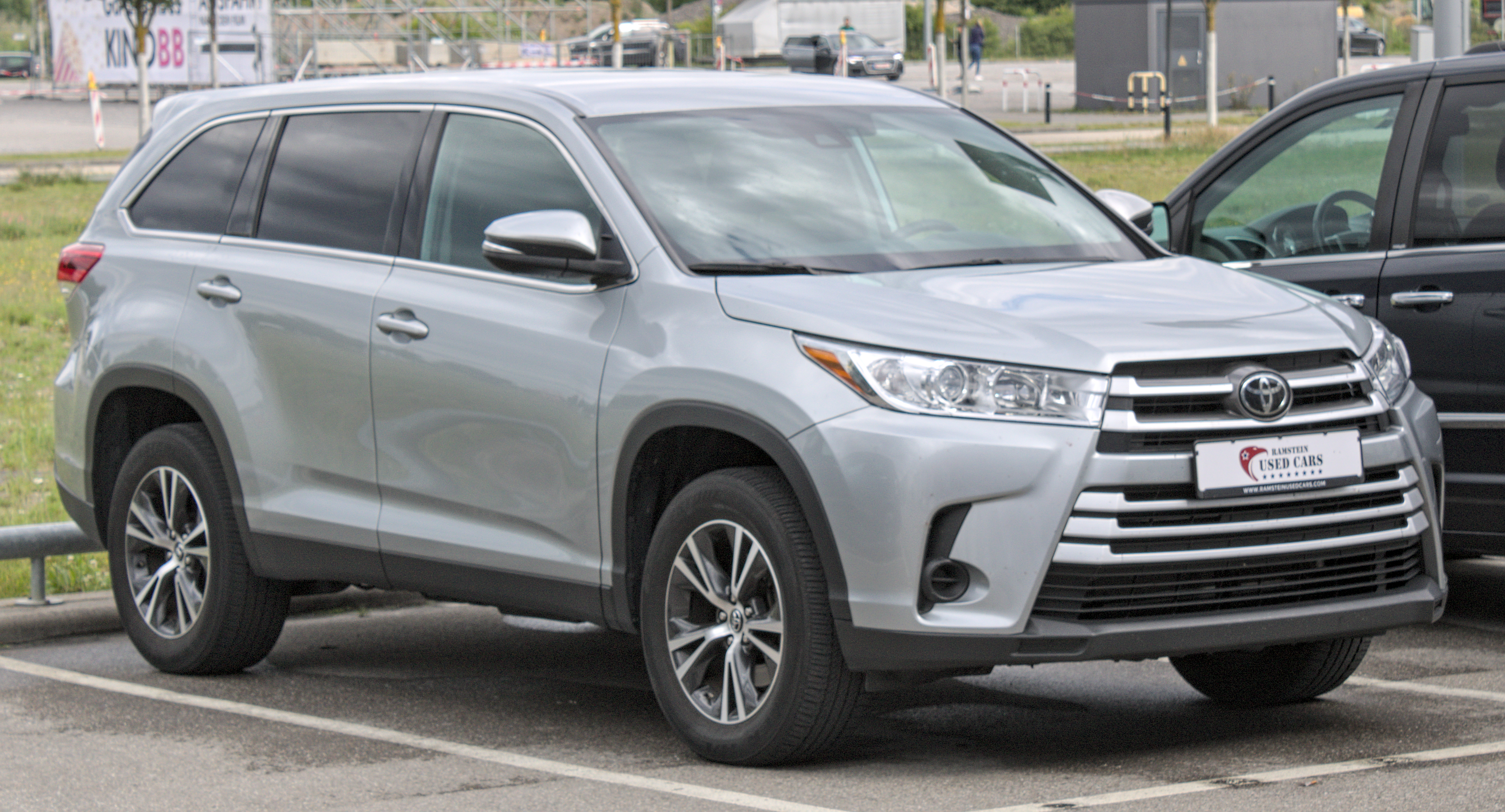 2016_Toyota_Highlander_(XU50) in Böblingen